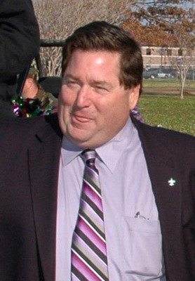 Billy Nungesser, lieutenant governor of Louisiana and former President of Plaquemines Parish, in 2007 taking part in festivities during the 19th Annual Plaquedilla Parade.